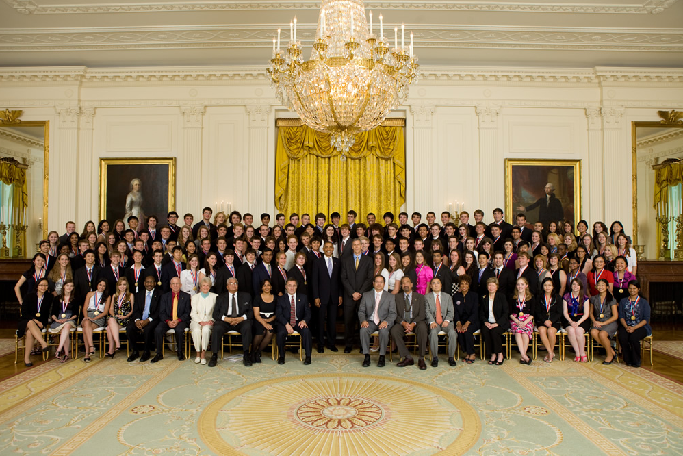 The East Room of the White House: the 2010 Presidential Scholars with President of the United States Barack Obama and Secretary of Education Arne Duncan. Photo by White House Photo Office.